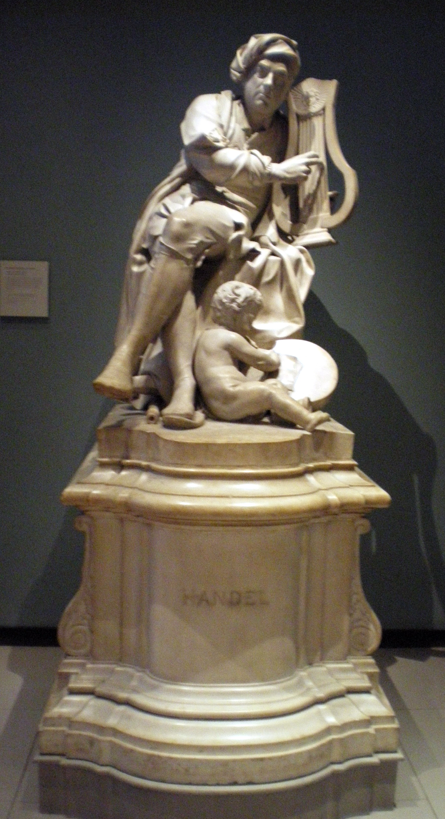 George Frideric Handel Signed and dated 1738; the plinth about 1850 Carved in London by Luis-Francois Roubiliac (1702-1762) Marble This full-length marble statue of the composer George Frideric Handel (1685-1759) was commissioned by the entrepreneur and collector Jonathan Tyers, who ran Spring Gardens at Vauxhall in London in the mid-18th century. Handel was then a leading figure in the capital's musical life. Since public life-size marble statues of living subjects were until this date undertaken only for monarchs, noblemen or military leaders, this figure made a considerable impact at the time. It is the earliest-known independent work by Roubiliac, and established his reputation as a sculptor. Louis Francois Roubiliac (1702-1762) was trained in Lyon, later working in Dresden under a leading Baroque sculptor, Balthasar Permoser (1651-1732), and then studying in Paris before moving to London in about 1730. All his known surviving works were executed in Britain. He specialised in portrait busts and funerary monuments, and was renowned for his handling of marble, particularly his creation of subtle surface textures. Vauxhall's Spring Gardens flourished during the 18th century. Set up and managed by Jonathan Tyers (1702-1767), it was a fashionable meeting place for Londoners, with supper boxes, promenades and live music (some of it composed by Handel). Works of art were prominently shown, with paintings by Francis Hayman (1708-1776) adorning the supper boxes (covered booths for dining) and marble sculptures set out along the avenues. Tyers is thought to have commissioned these partly to enhance the respectability of the Gardens, which had gained a somewhat disreputable air due to the increasing nocturnal presence of courtesans and common prostitutes. Purchased with the assistance of The Art Fund